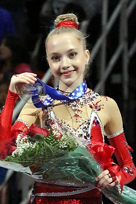 Elena Radionova during the ladies medals ceremony at the Skate America 2013.